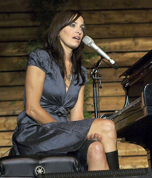 Chantal Kreviazuk talks to the audience in between songs during a performance at Jackson-Triggs Winery, Niagara-on-the-Lake.